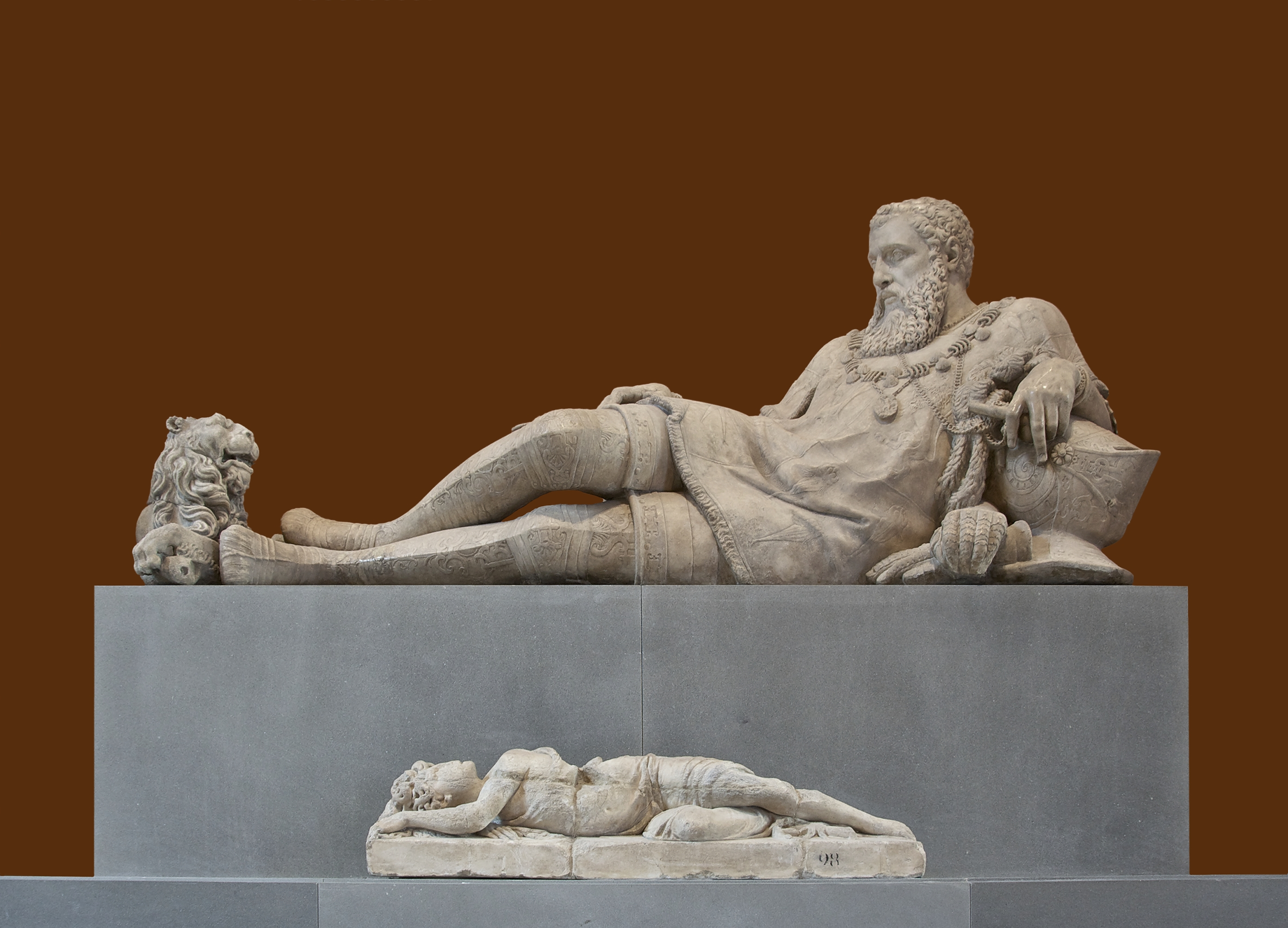 Three of the elements of the tomb of Philippe Chabot (Lying statue, lion, "Fortune"), formerly in the church of the Celestins in Paris.